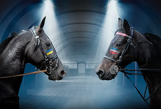 Nuncio and Bold Eagle, Elitloppet 2017.